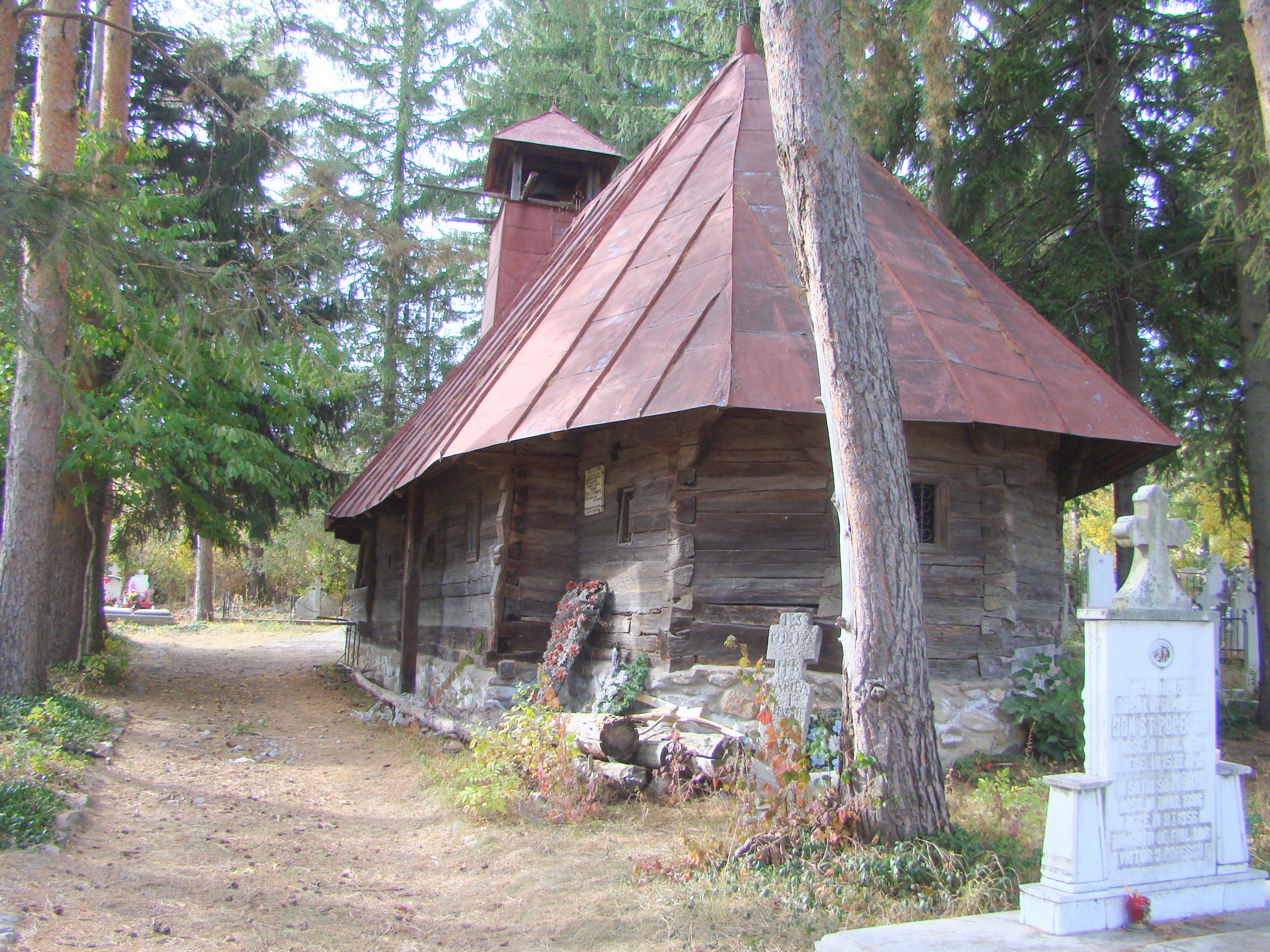 Wooden church in Curpen, Gorj county, Romania